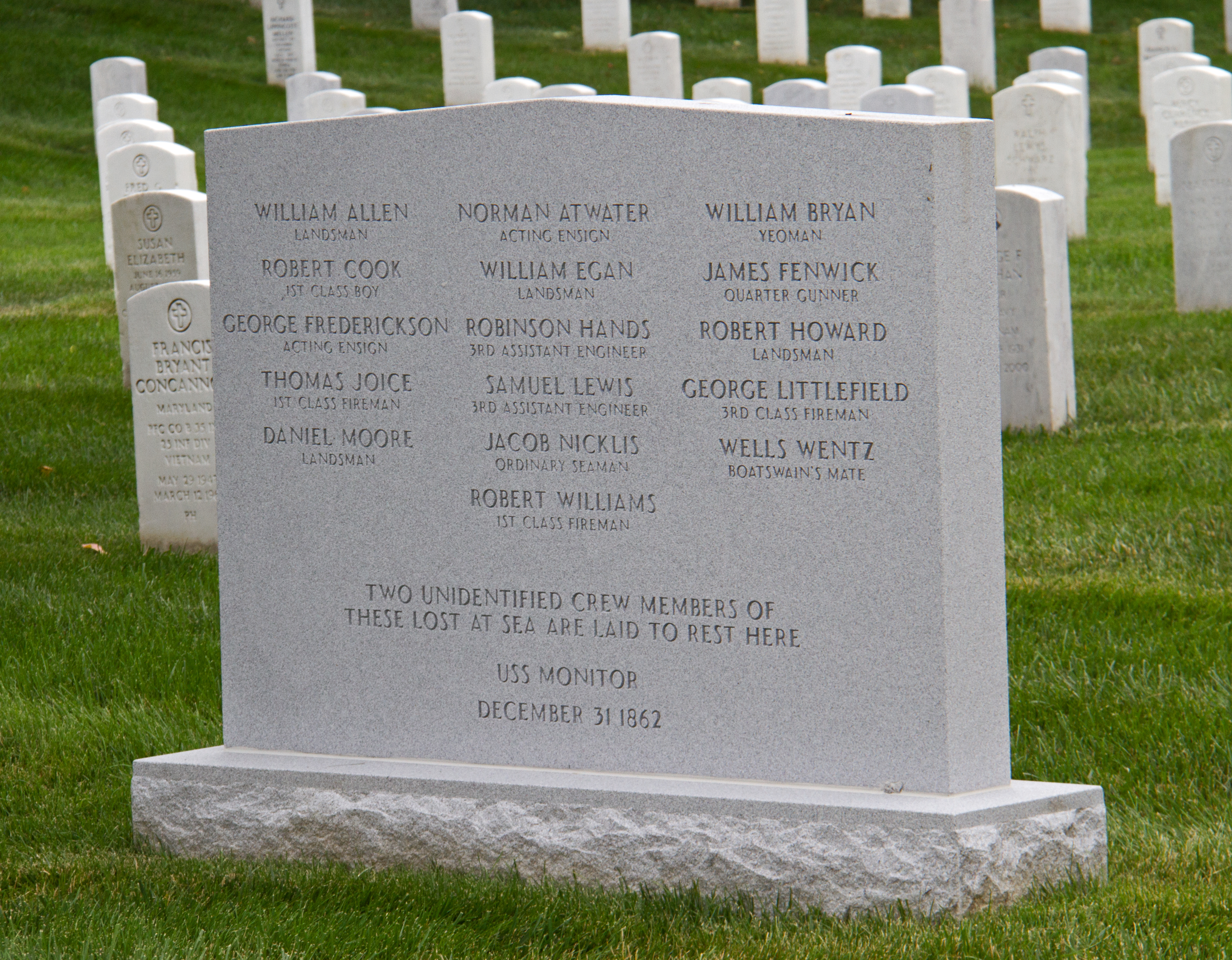 USS Monitor crew grave marker in Arlington National Cemetery